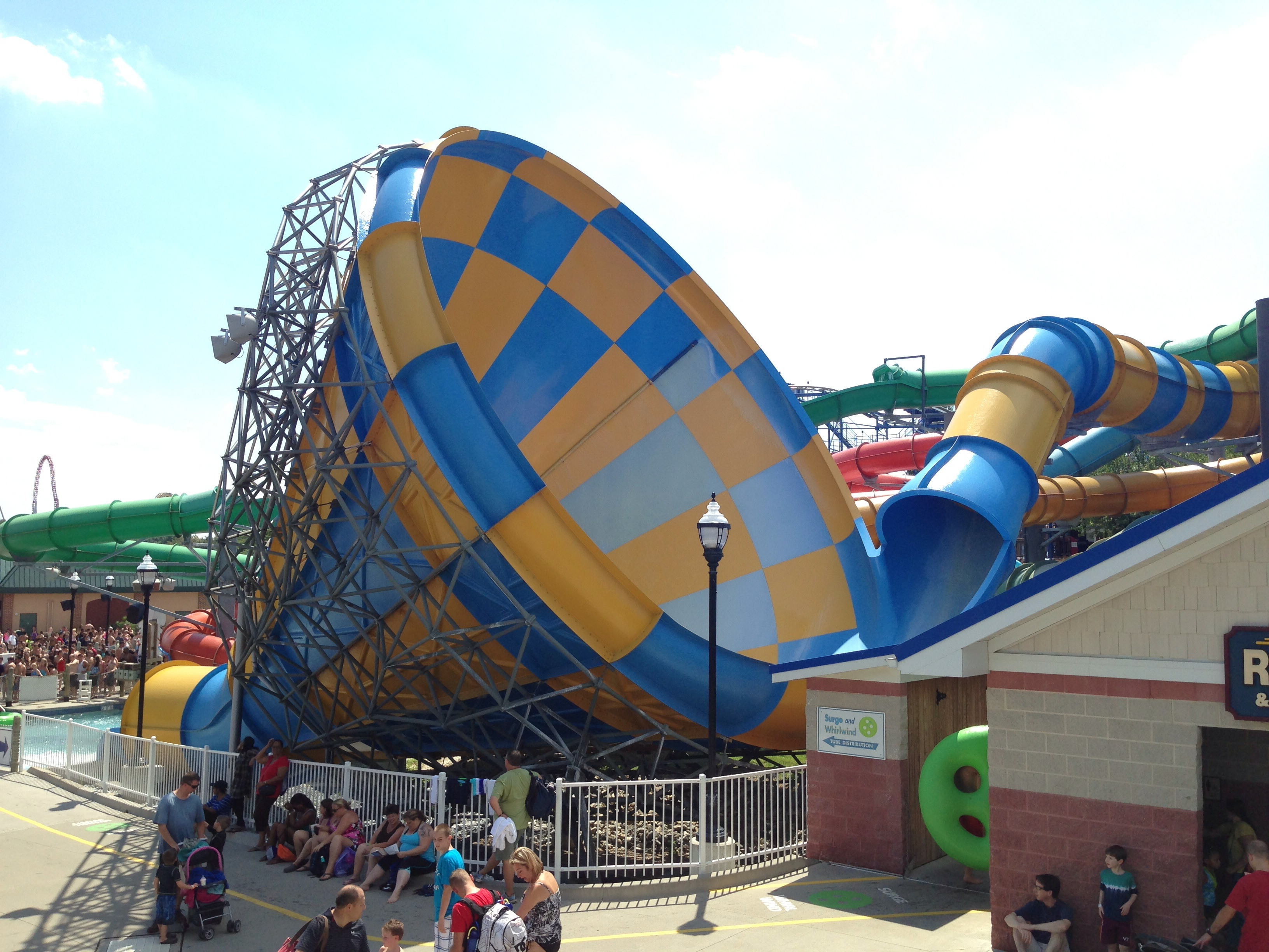 The Vortex